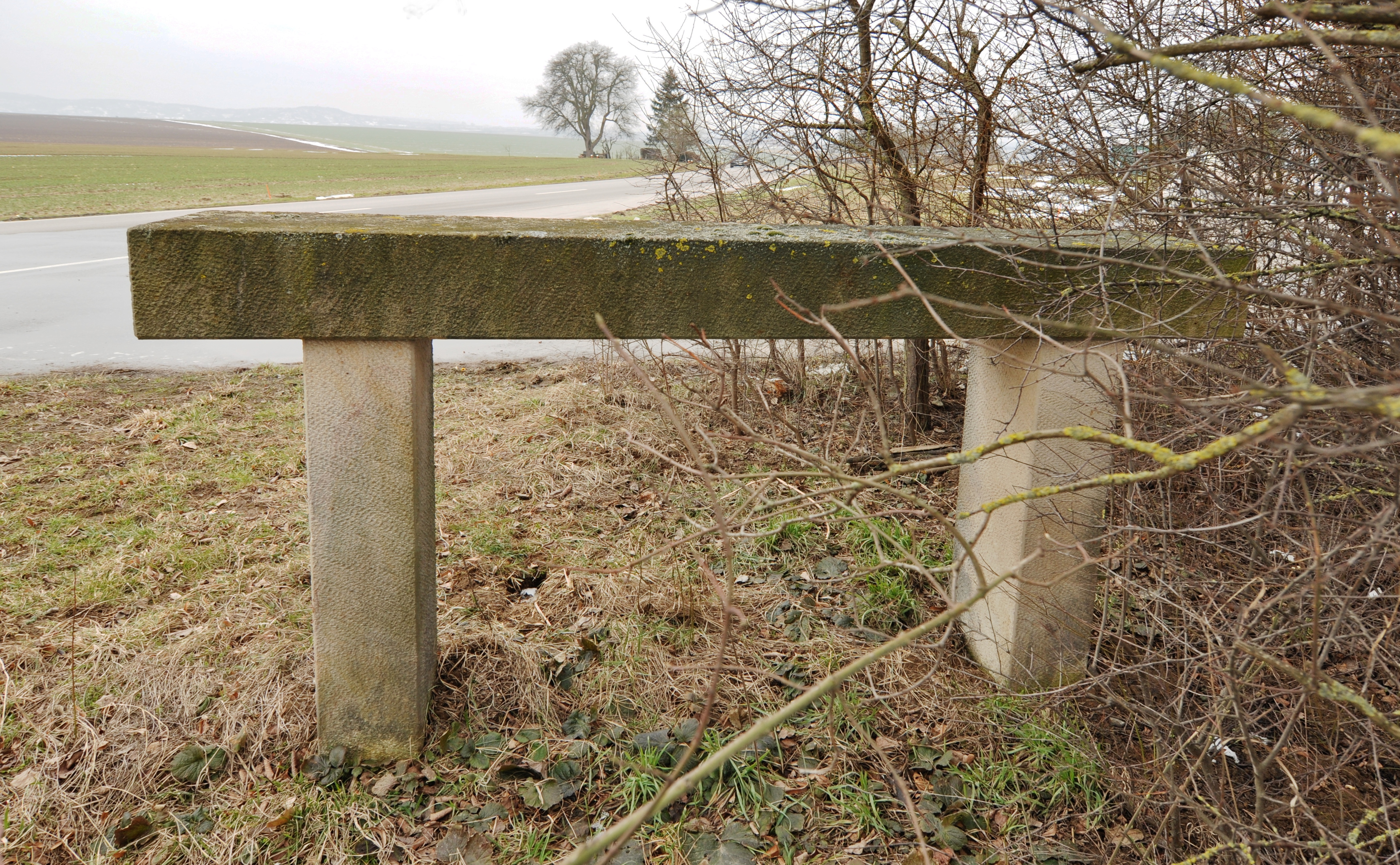 Replica of old stone rest bench near Münchingen